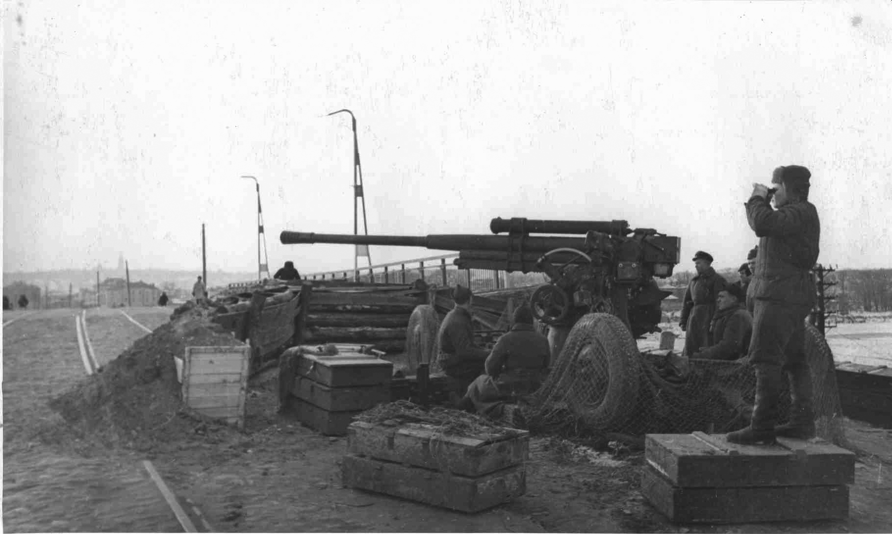 The Soviet 85-mm anti-aircraft gun 52-K on the Proletarian Bridge in Tula.